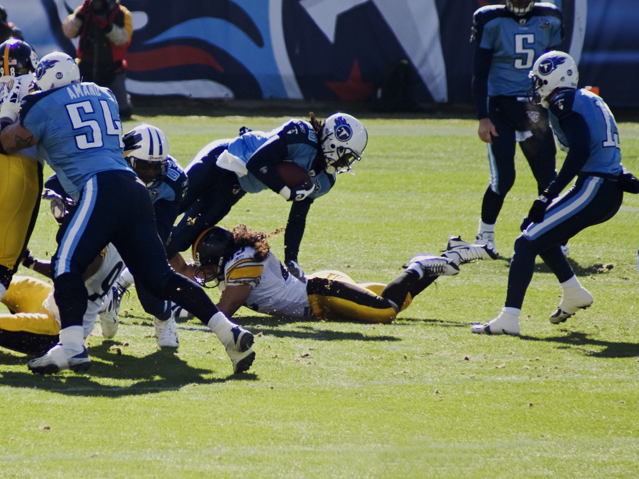 Tennessee Titans running back Chris Johnson in a 2008 match vs. Pittsburgh Steelers safety Troy Polamalu